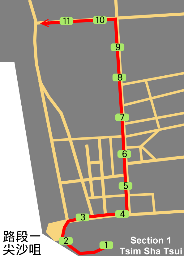 2008 Summer Olympic Torch Relay in Hong Kong, Section 1, Tsim Sha Tsui